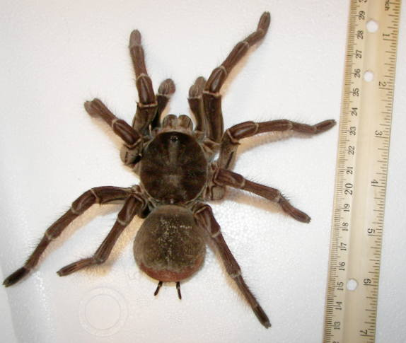 Goliath birdeater next to a ruler.